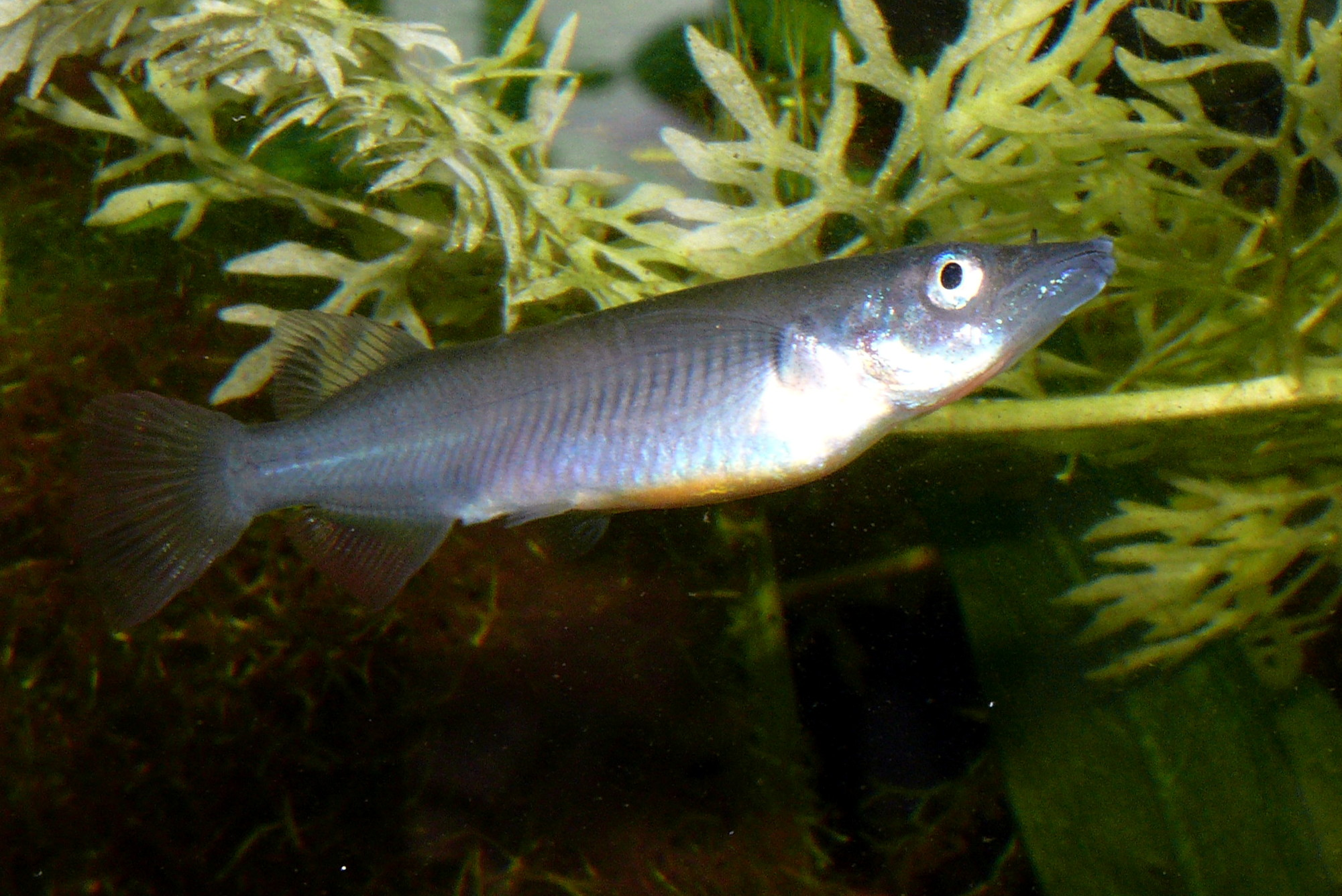 Nomorhamphus sp.